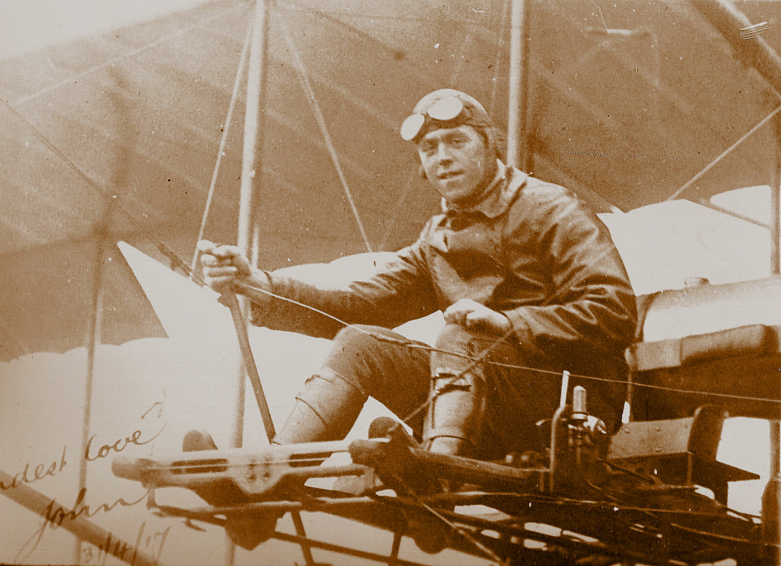 John Gordon at the controls of a Graham White Boxkite, Point Cook, Victoria, 1916.